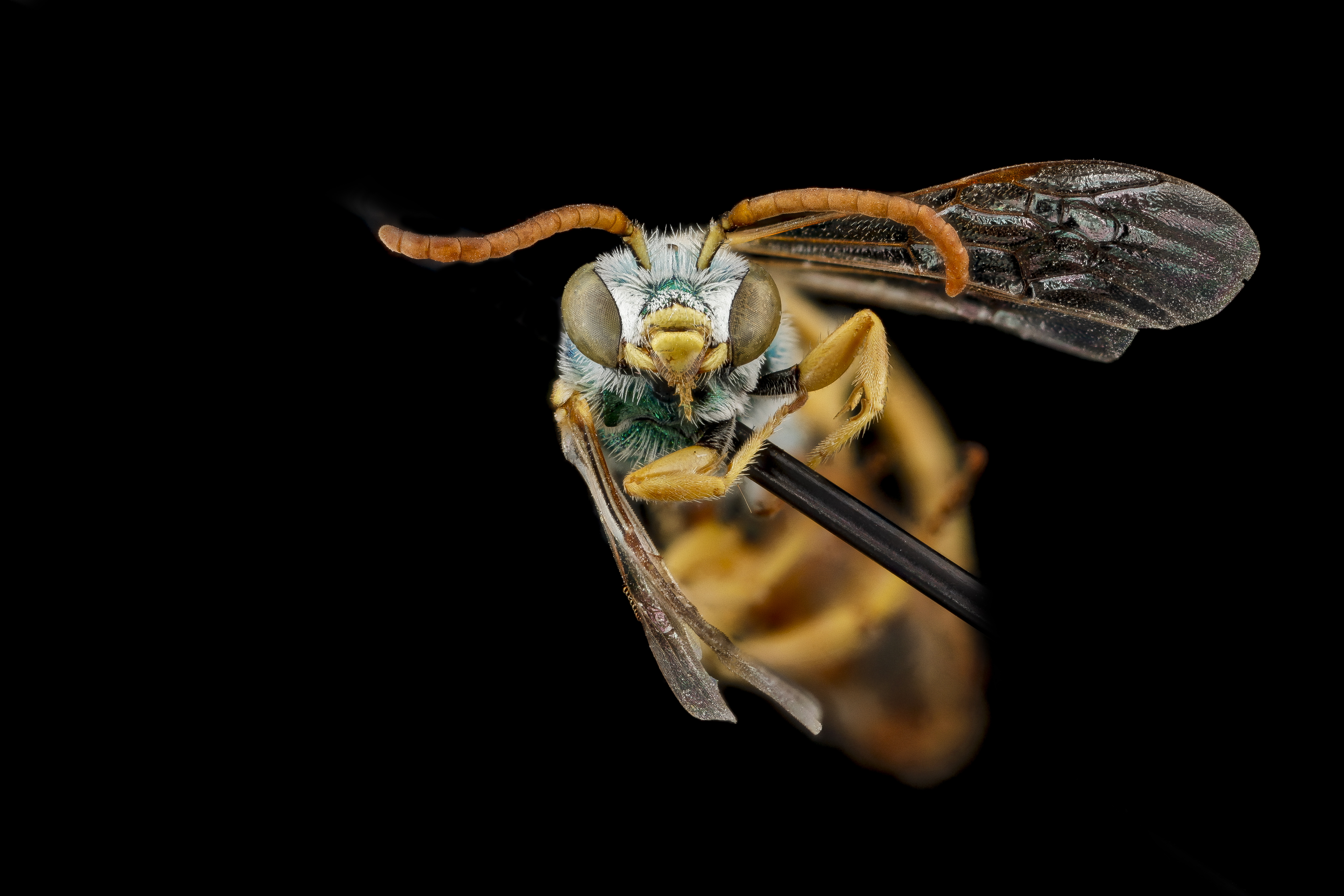 Pennington County, South Dakota, Badlands National Park